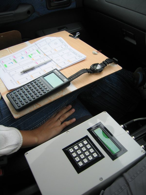 Some typical equipment used for regularity rallying (including the route schedule, stopwatch, calculator and a homemade odometer/speedometer).